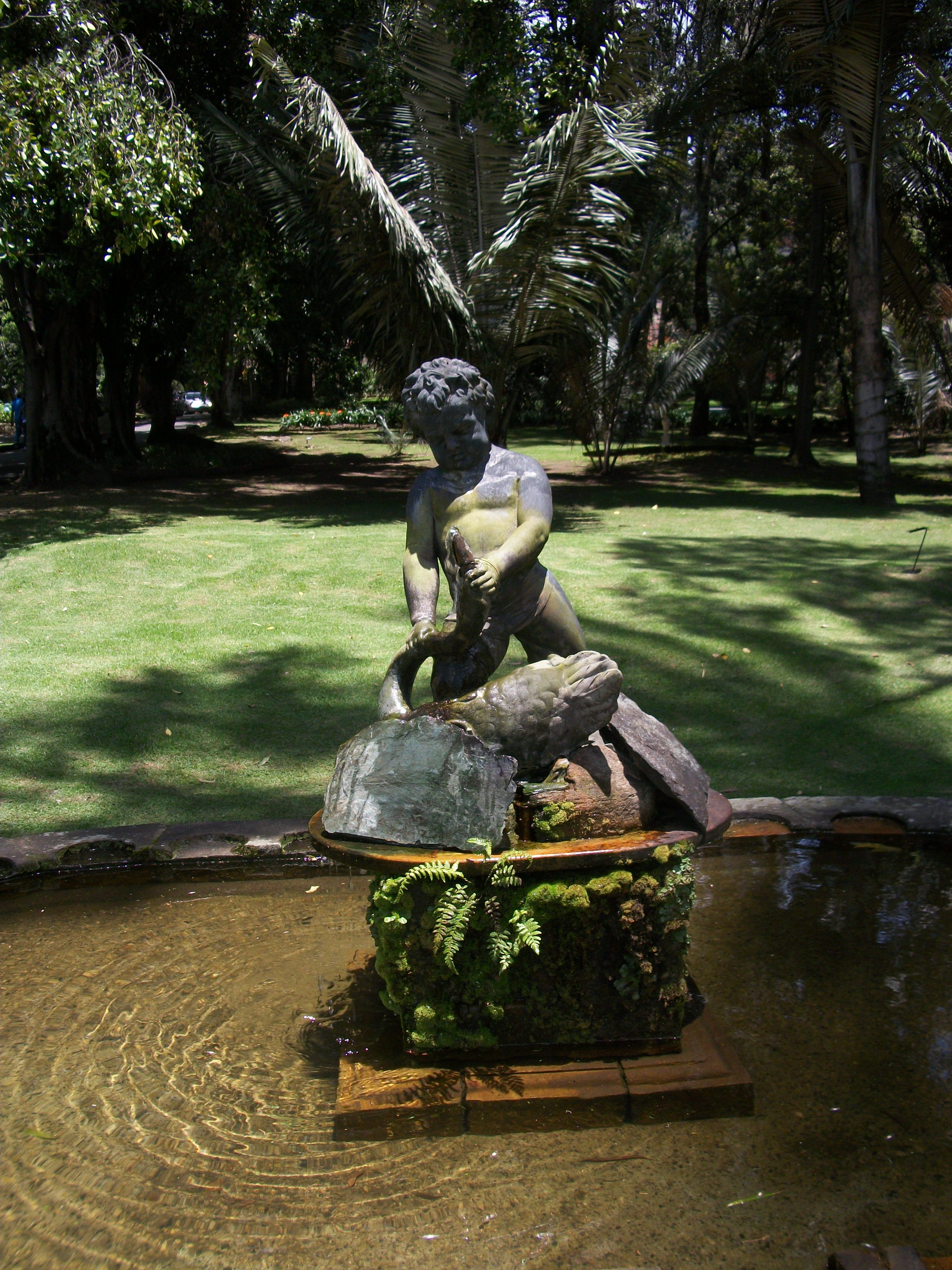 Fountain in the grounds of the Museo El Chicó, Bogotá, Colombia.